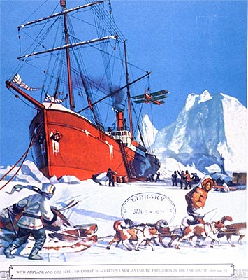 "With airplane and dog sled: Sir Ernest Shackleton's new Antarctic Expedition in the far south." (Shackleton–Rowett Expedition)